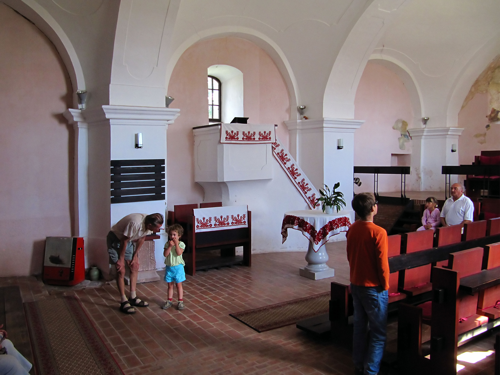 Reformed churches in Vörösberény district of Balatonalmádi, Veszprém County. Listed Id 9658. A Baroque church with Romanesque & Gothic elements. Object location47° 02′ 48.12″ N, 18° 00′ 30″ E This is a photo of a monument in Hungary. Identifier: 9658